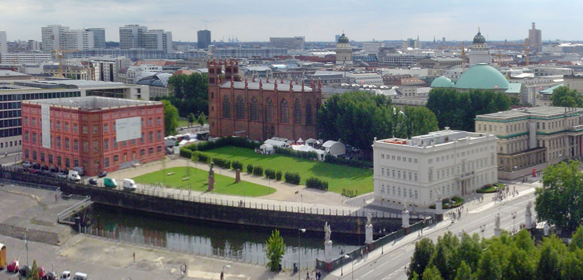 View over Berlin center (Mitte) from the Berliner Dom.